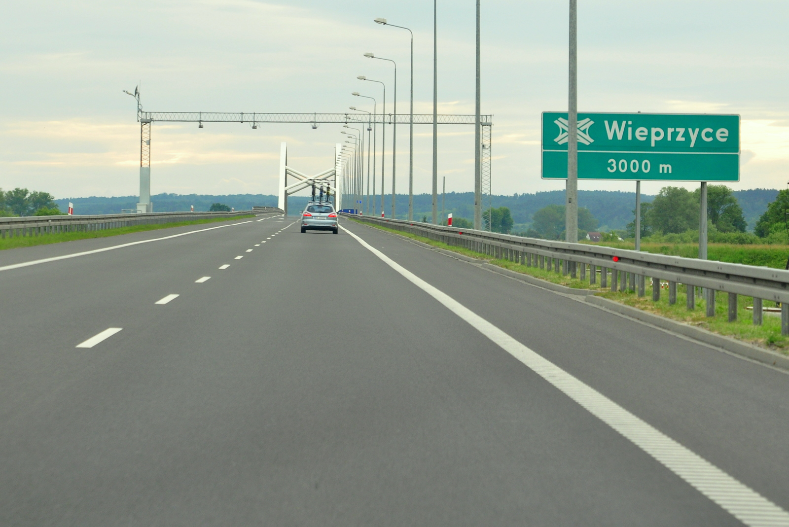 West tangente in Gorzów Wielkopolski (Wieprzycki Bridge)